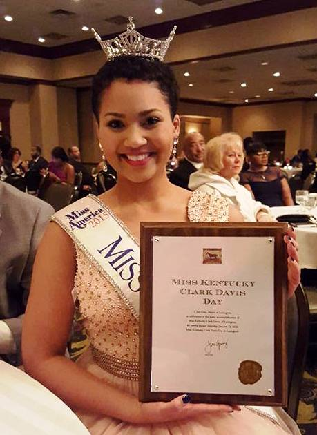 Mayoral Proclamation Declaring Saturday, January 23, 2016 as Miss Kentucky Clark Davis Day